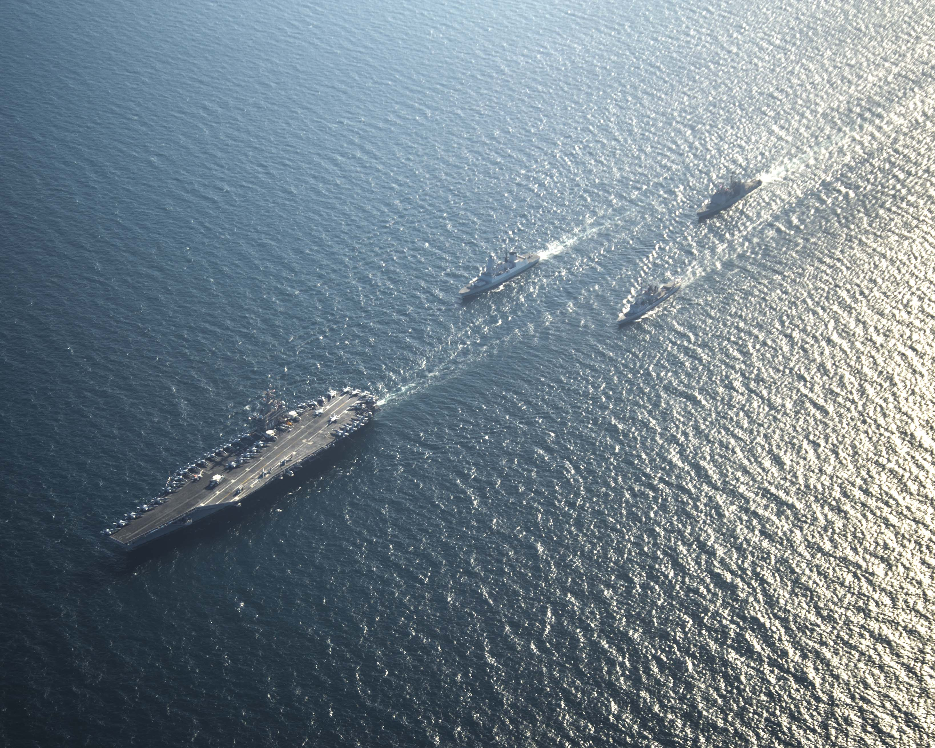 ARABIAN GULF (Nov. 9, 2014) The aircraft carrier USS Carl Vinson (CVN 70) sails in formation with the Daring-class air-defence destroyer HMS Defender (D36), the guided-missile cruiser USS Bunker Hill (CG 52) and the French Marine Nationale anti-air frigate FS Jean Bart (D615). The Carl Vinson strike group is deployed in the U.S. 5th Fleet area of responsibility supporting Operation Inherent Resolve, strike operations in Iraq and Syria as directed, maritime security operations, and theater security cooperation efforts in the region. With a quarter of the world's navies participating including 6,500 Sailors from every region, IMCMEX is the largest international naval exercise promoting maritime security and the free-flow of trade through mine countermeasure operations, maritime security operations, and maritime infrastructure protection in the U.S. 5th Fleet area of responsibility and throughout the world. (U.S. Navy Photo/Released)